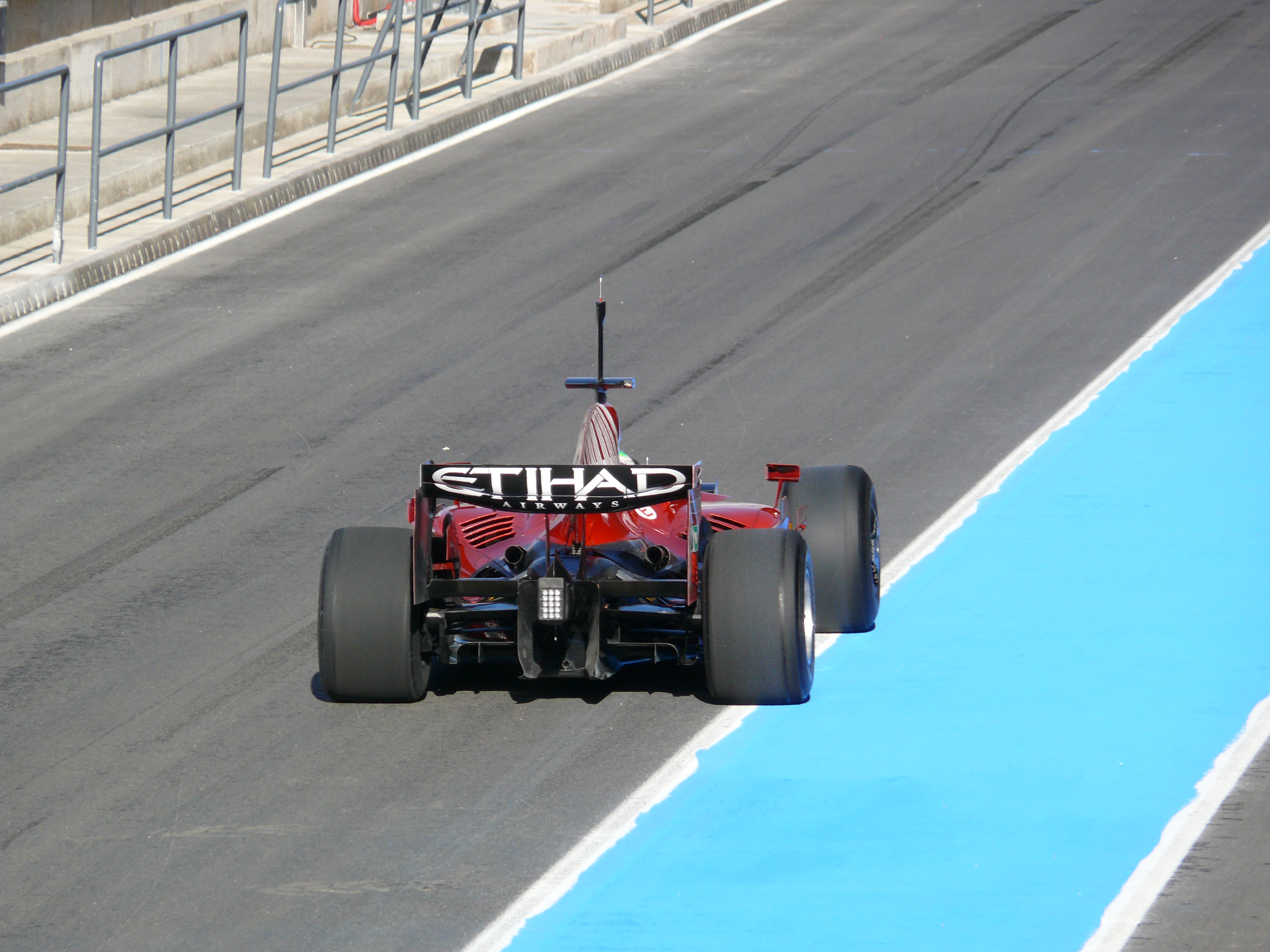 Felipe Massa at Autódromo Internacional do Algarve